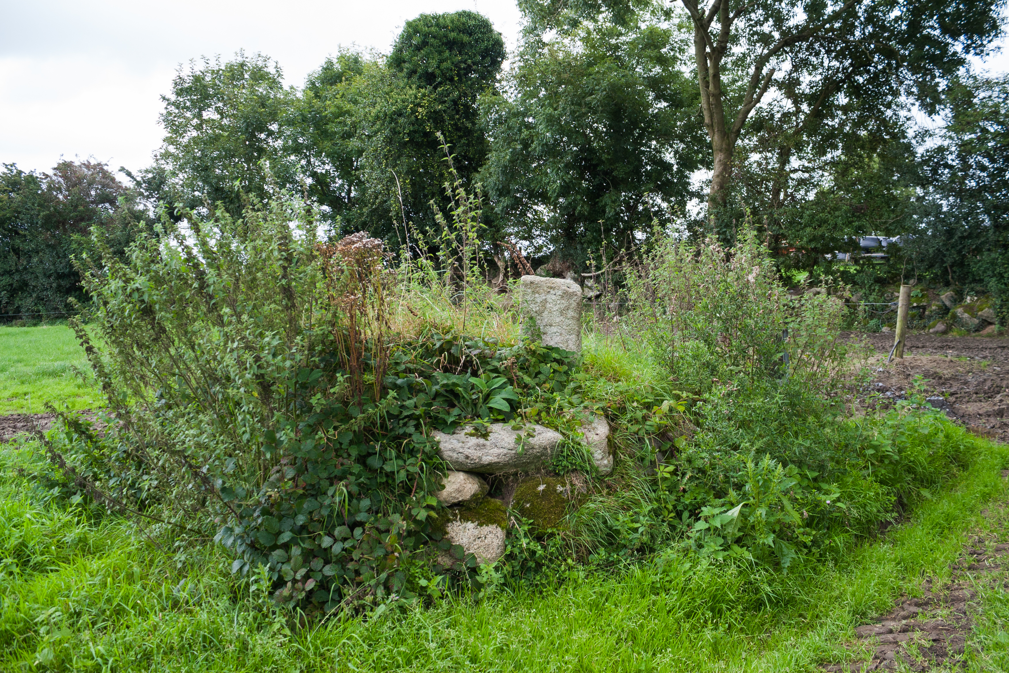 Surviving remainings of Lorum High Cross, looking north-east.